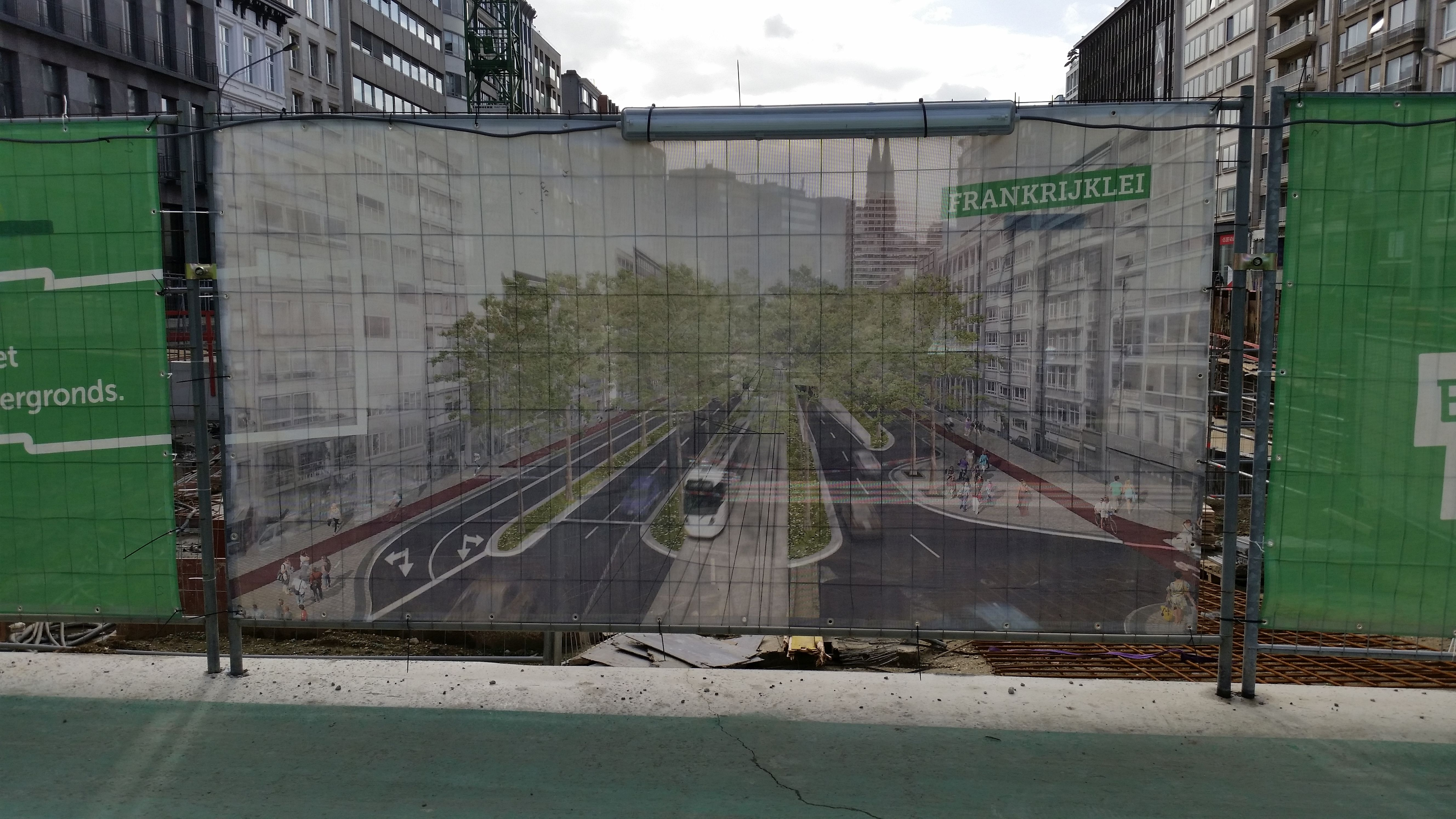 Final redevelopment design of Opera Square in Antwerp, Belgium, within the frame of Noorderlijn project. Picture taken on October 29, 2017.